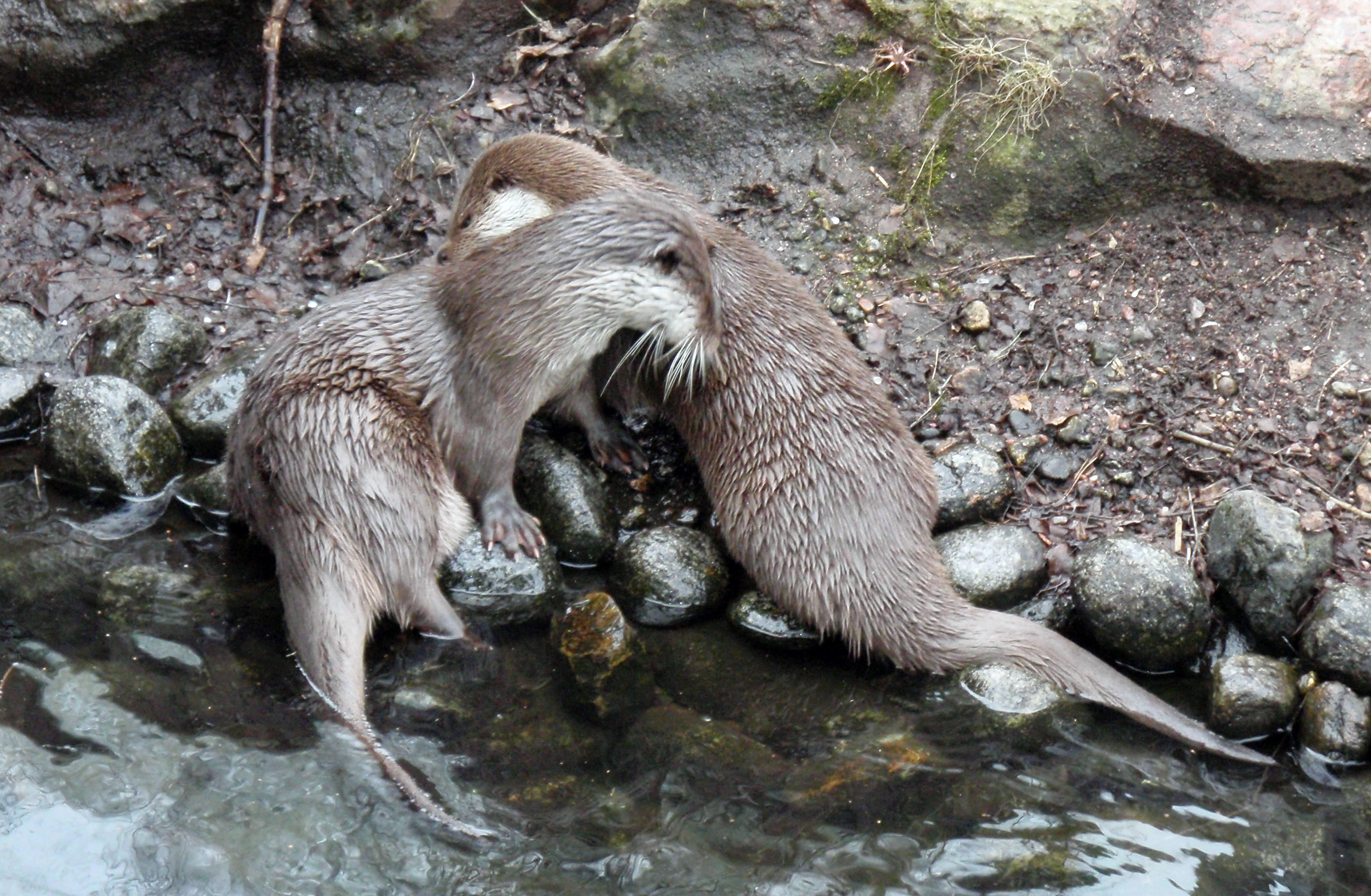 Two european otters (Lutra lutra) at Korkeasaari Zoo.